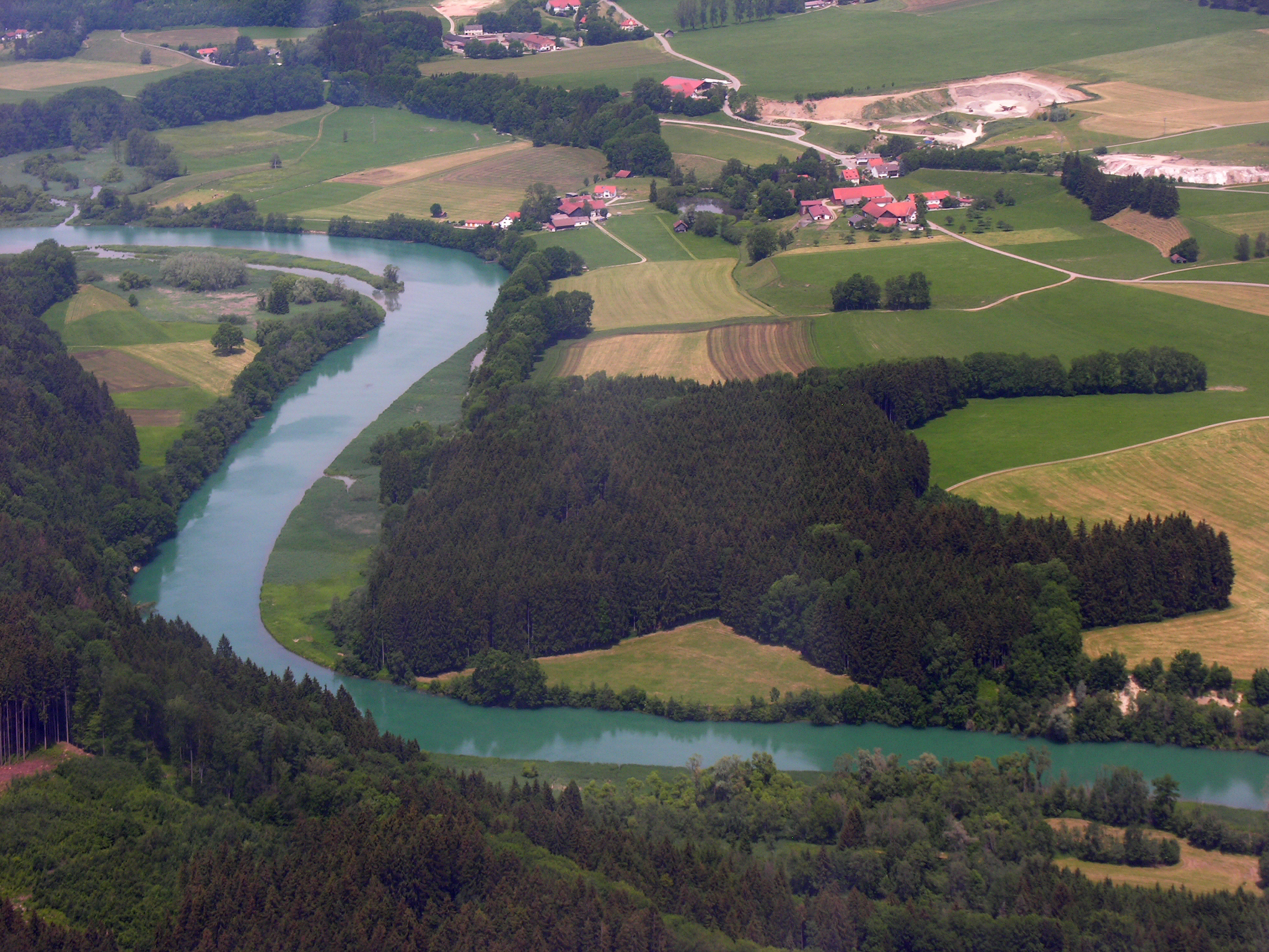 Germany, Bavaria, Iller (river) and Unterbinnwang